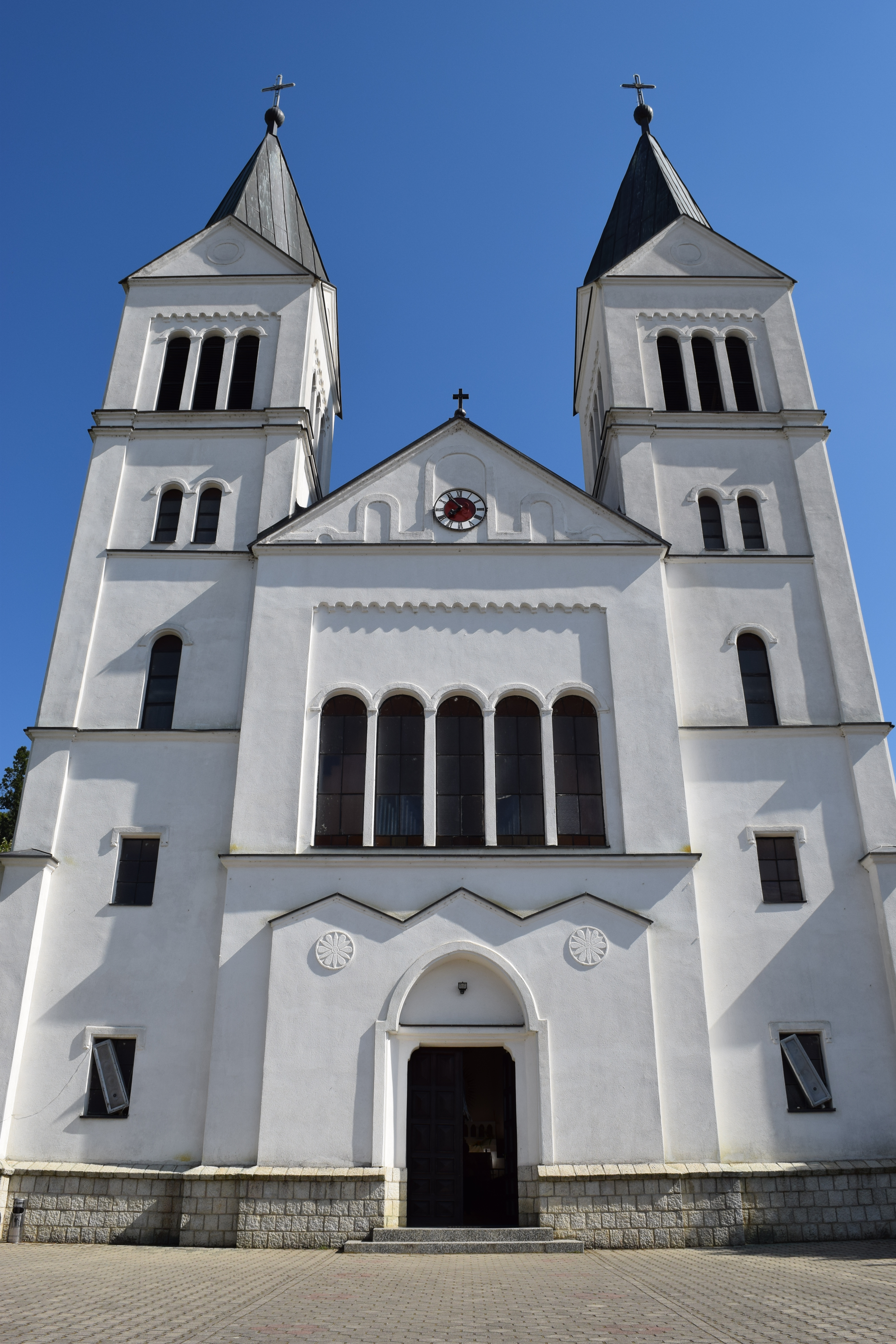 The Roman Catholic church located in Letnica, a village in Viti, Kosovo. Mother Teresa served in this church in her early years.